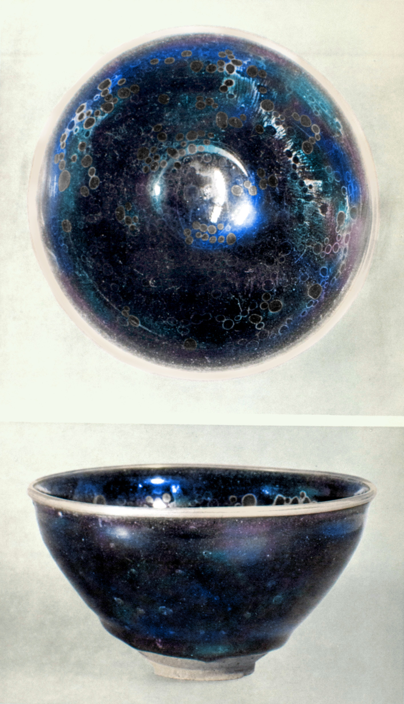 Fujita Bijutsukan, Osaka, Japan